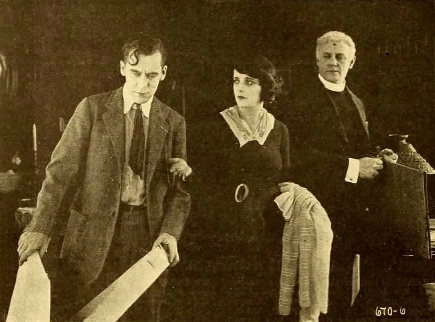 Still from the American drama film Restless Souls (1919) with Jack Conway, Alma Rubens, and an unidentified actor, on page 798 of the February 8, 1919 Moving Picture World.